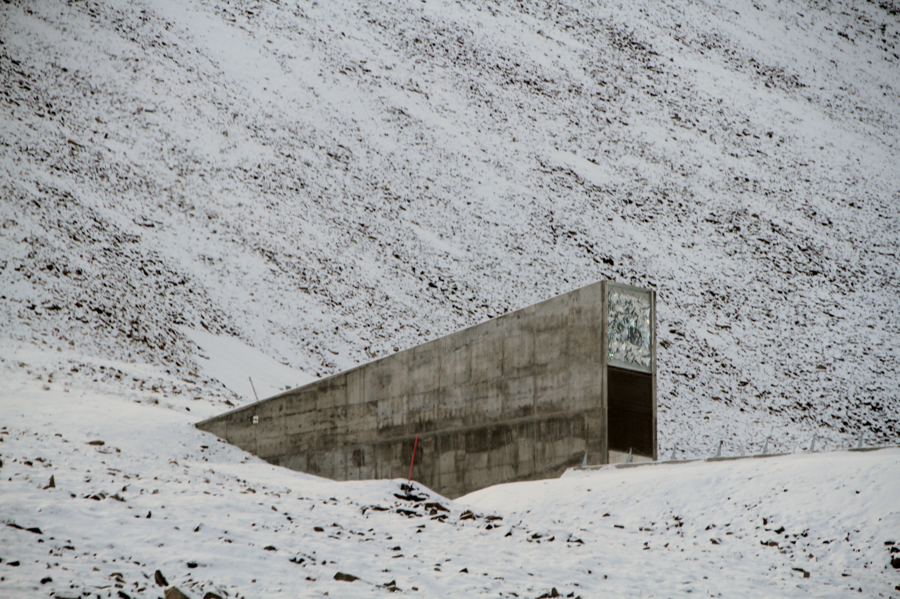 The svalbard global seed vault, established in a part of mine No 3, as a repository of the global plant diversity.